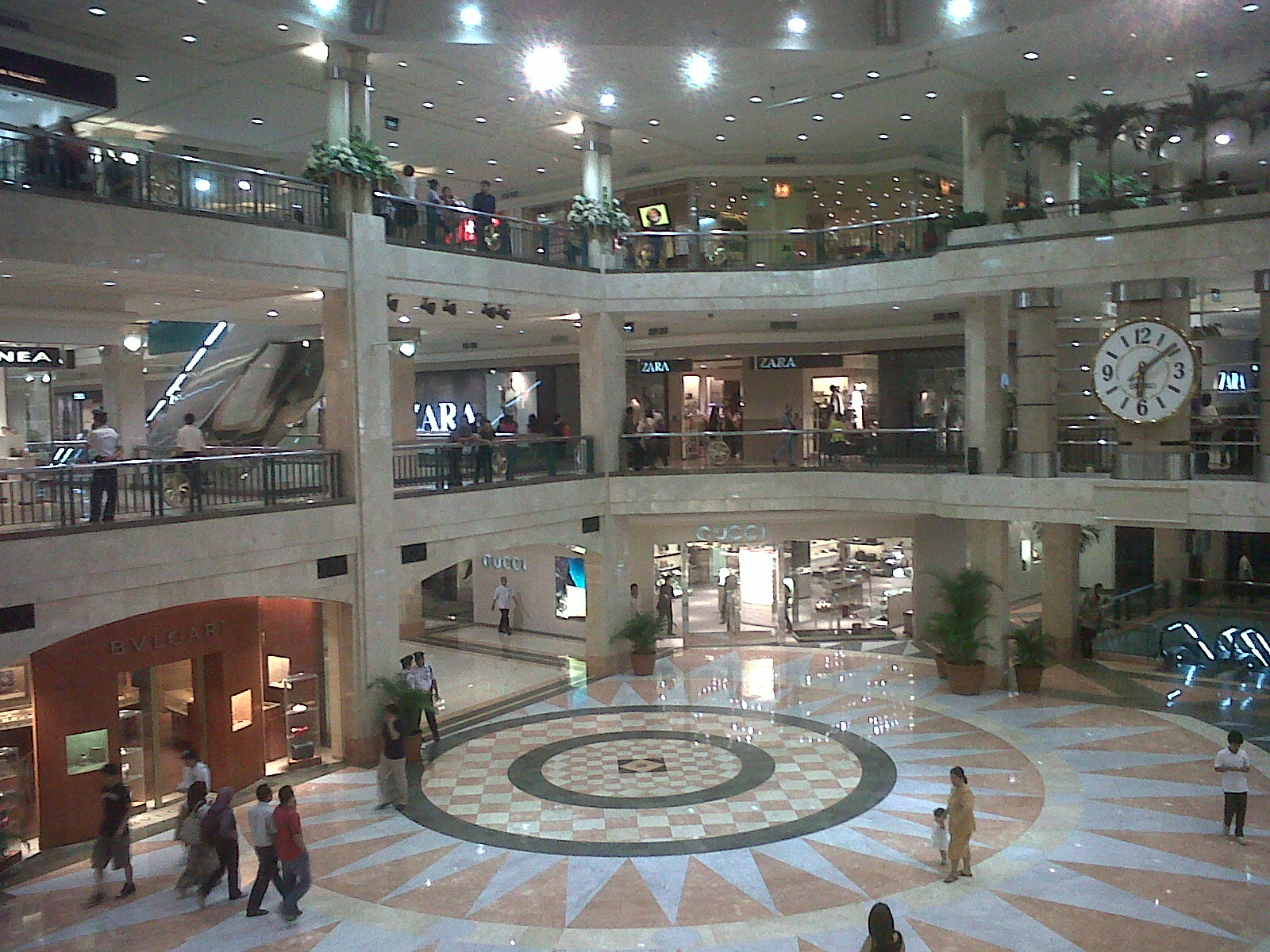 Plaza Senayan, a shopping mall in Jakarta